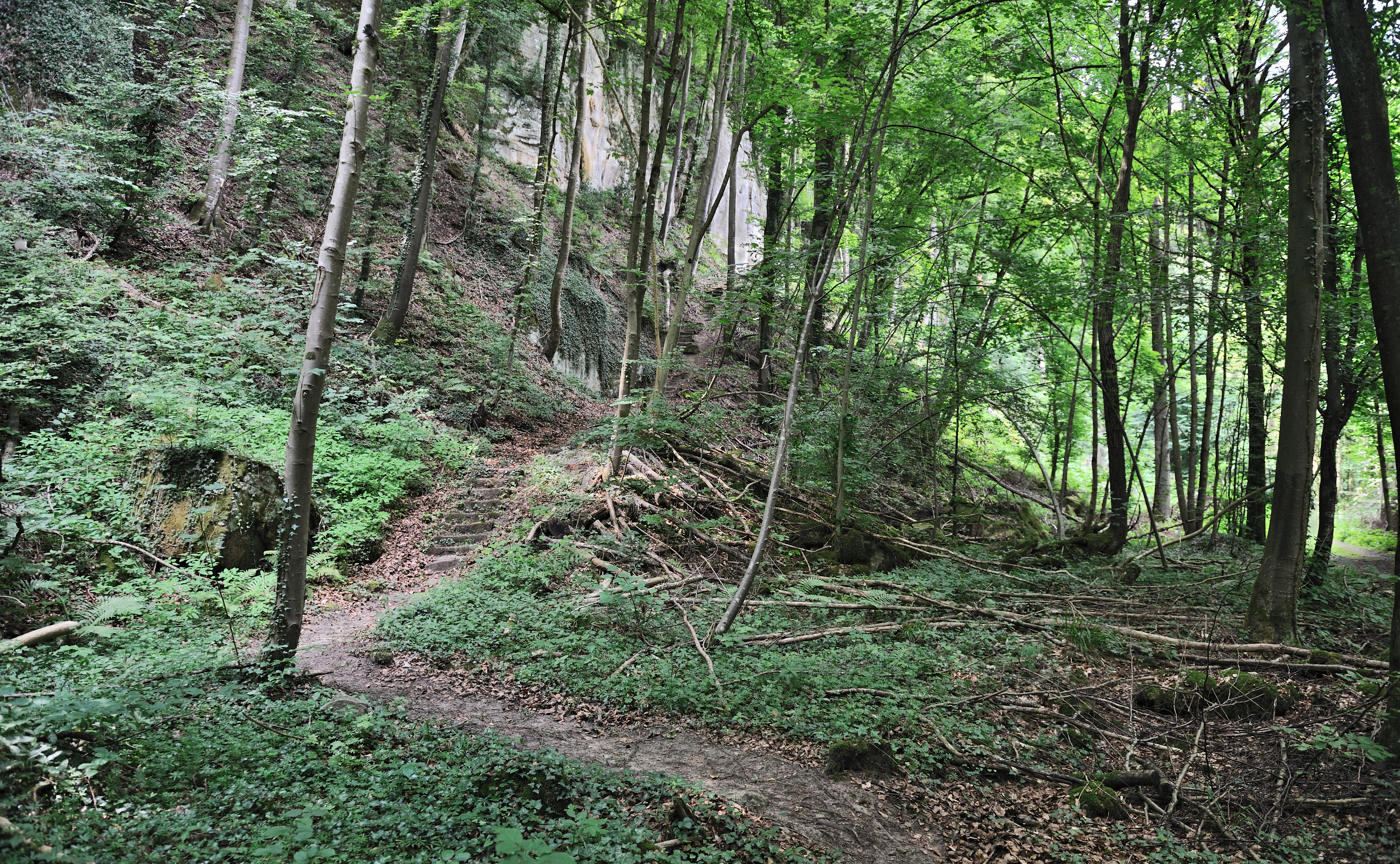 Luxembourg, commune of Beaufort, Mullerthal region (Luxembourg's Little Switzerland): forest reserve 'Saueruecht'.